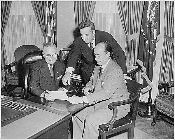 President Harry Truman (left), Democratic presidential candidate Adlai Stevenson (right), and Democratic vice presidential candidate John Sparkman (standing) meeting in the Oval Office.